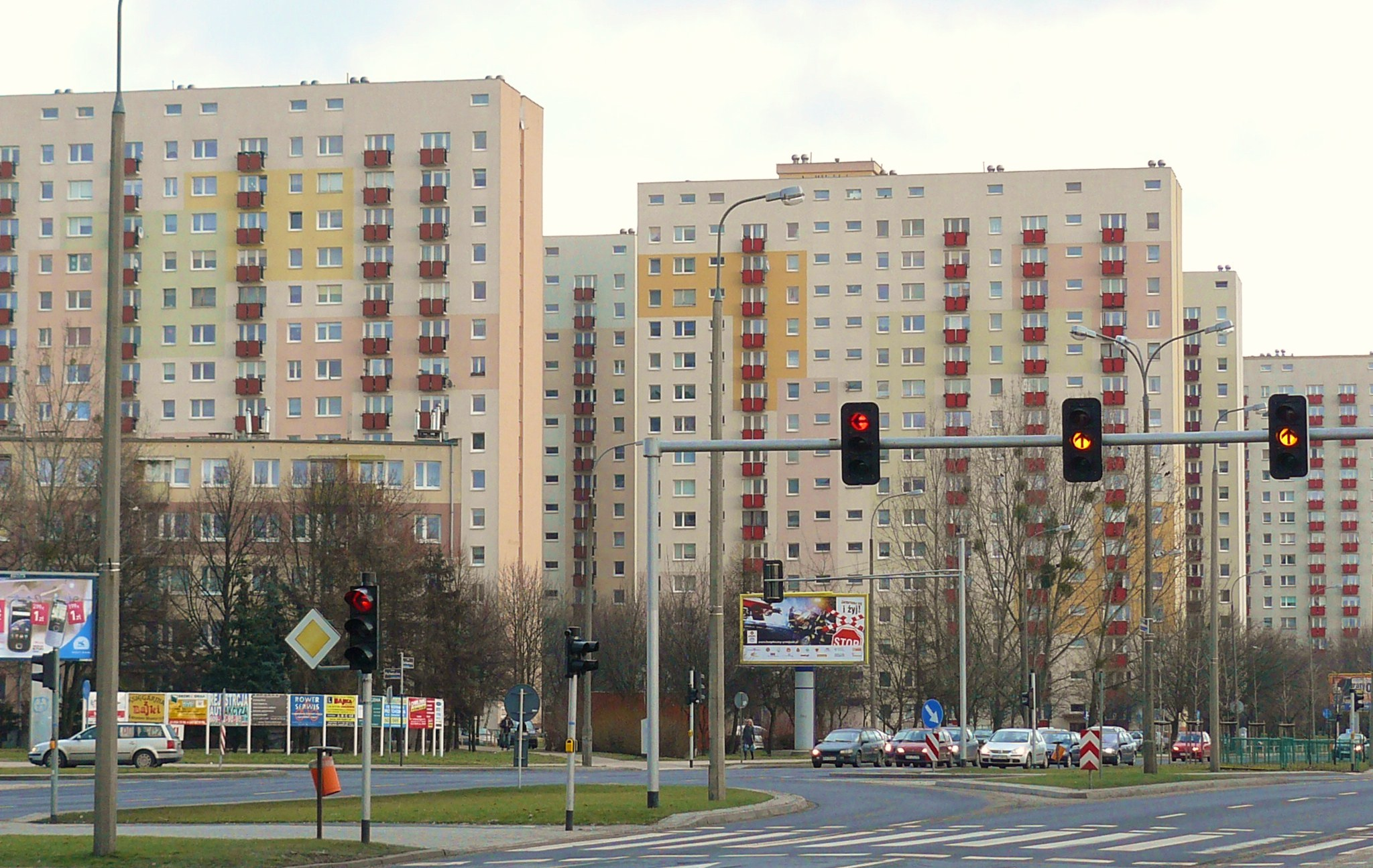 Poznan, Wichrowe Wzgorze Distr.